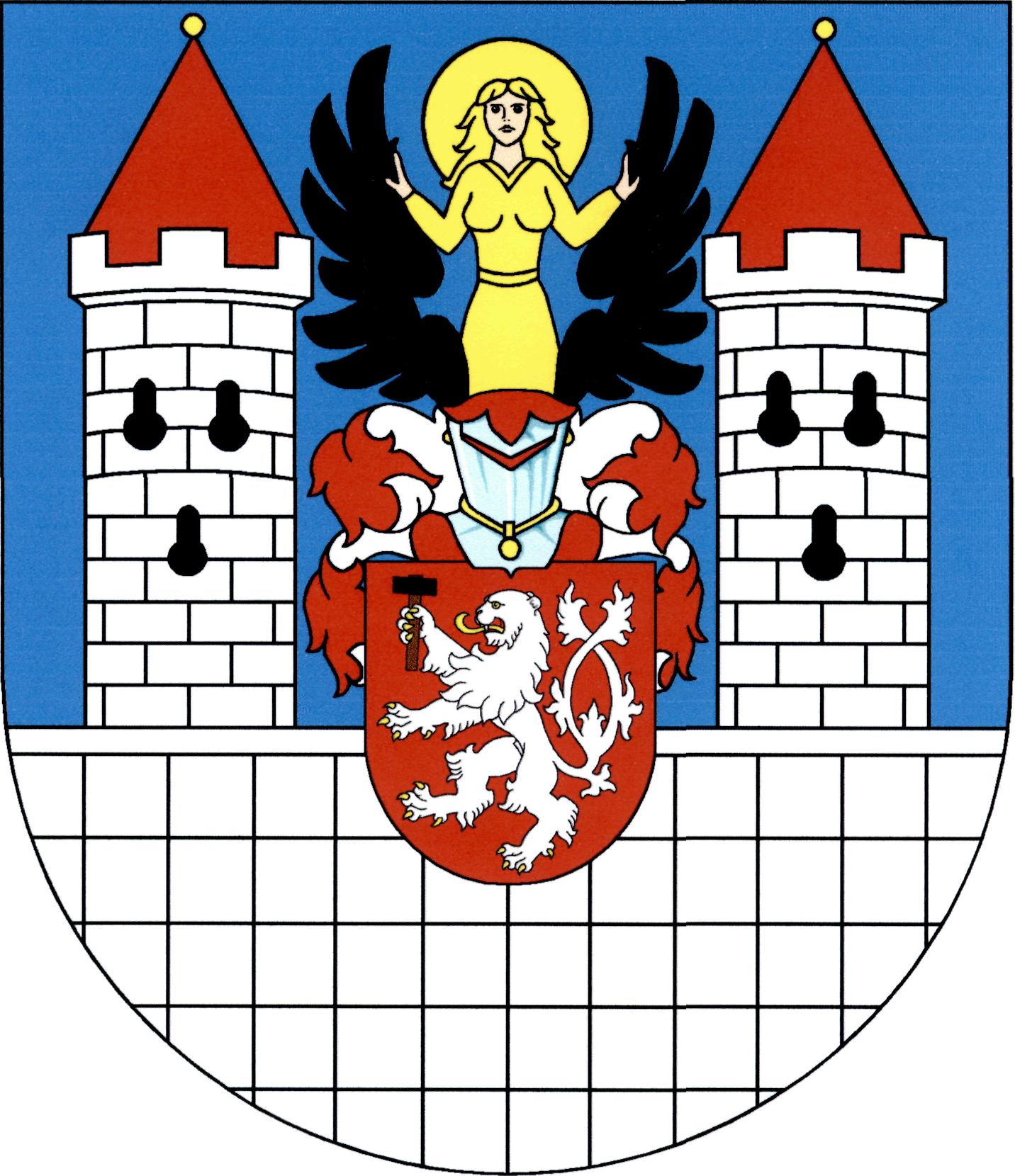 Municipal coat of arms of Bečov nad Teplou town, Karlovy Vary District, Czech Republic.